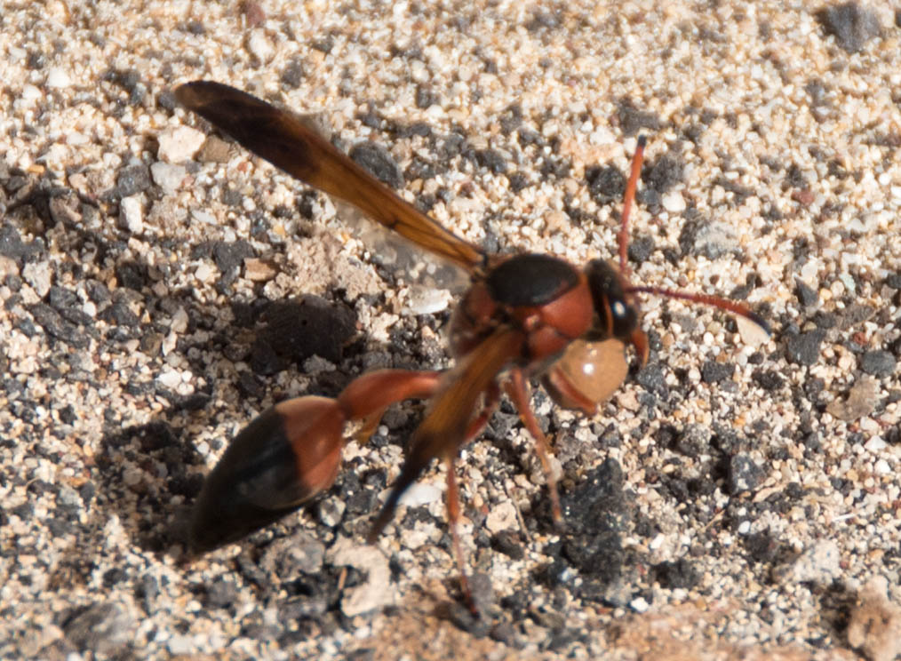 Delta dimidiatipenne carrying what looks to be an egg sac. Taken on Lanzarote.